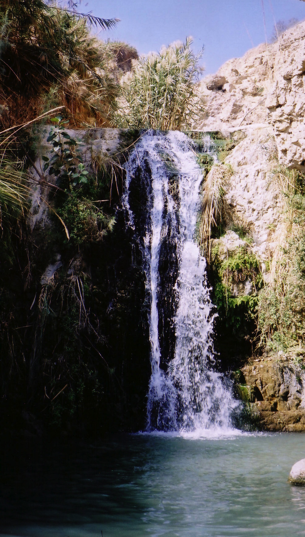 Legend has it that David fled to this waterfall to escape King Saul's wrath. David had slept with one of his wives.